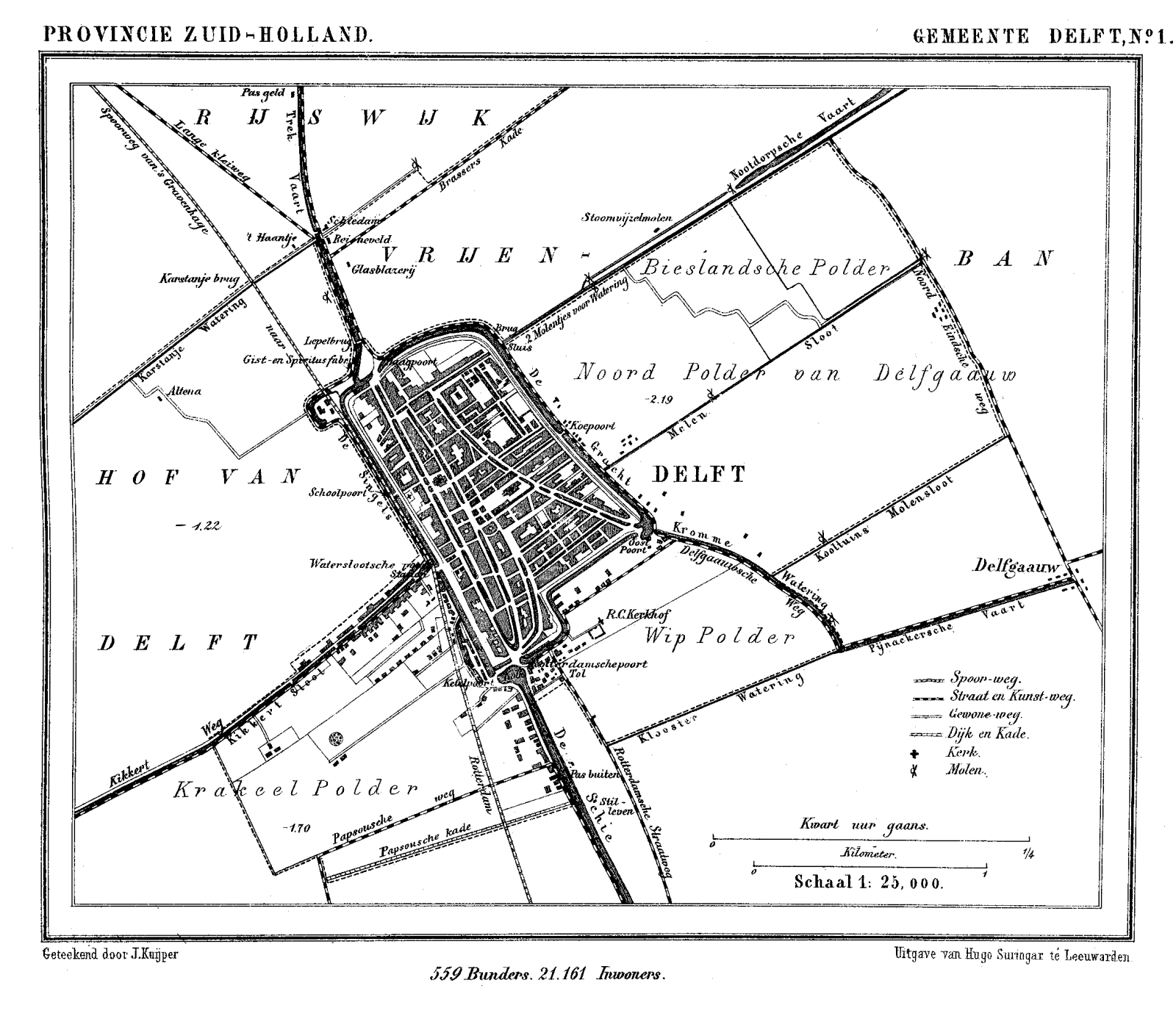 Historic map of Delft, South Holland, the Netherlands